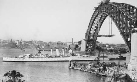 HMAS Canberra sailing into Sydney Harbour (under the then under-construction Harbour Bridge) in 1930.